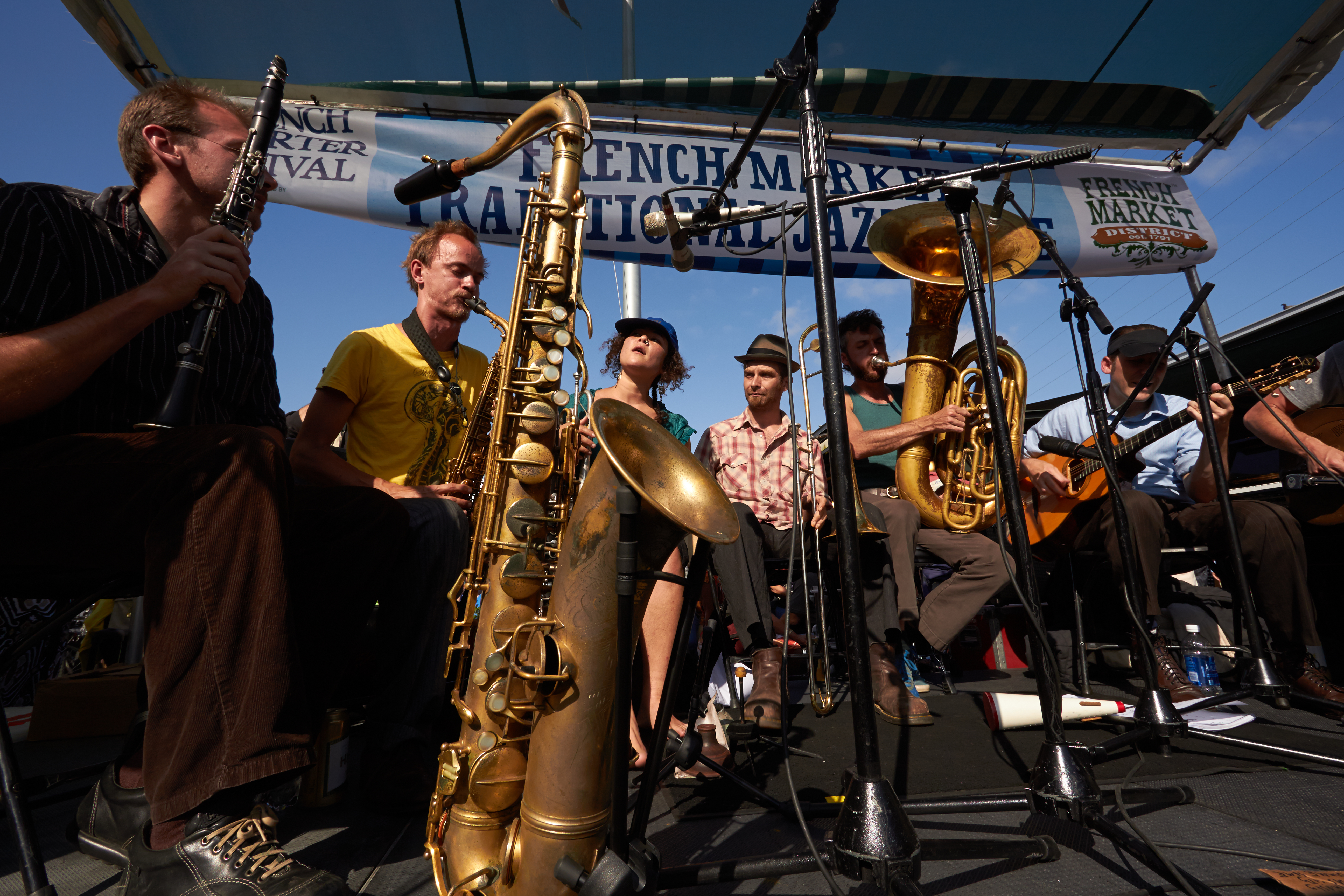 "Tuba Skinny" band at French Quarter Festival, New Orleans.